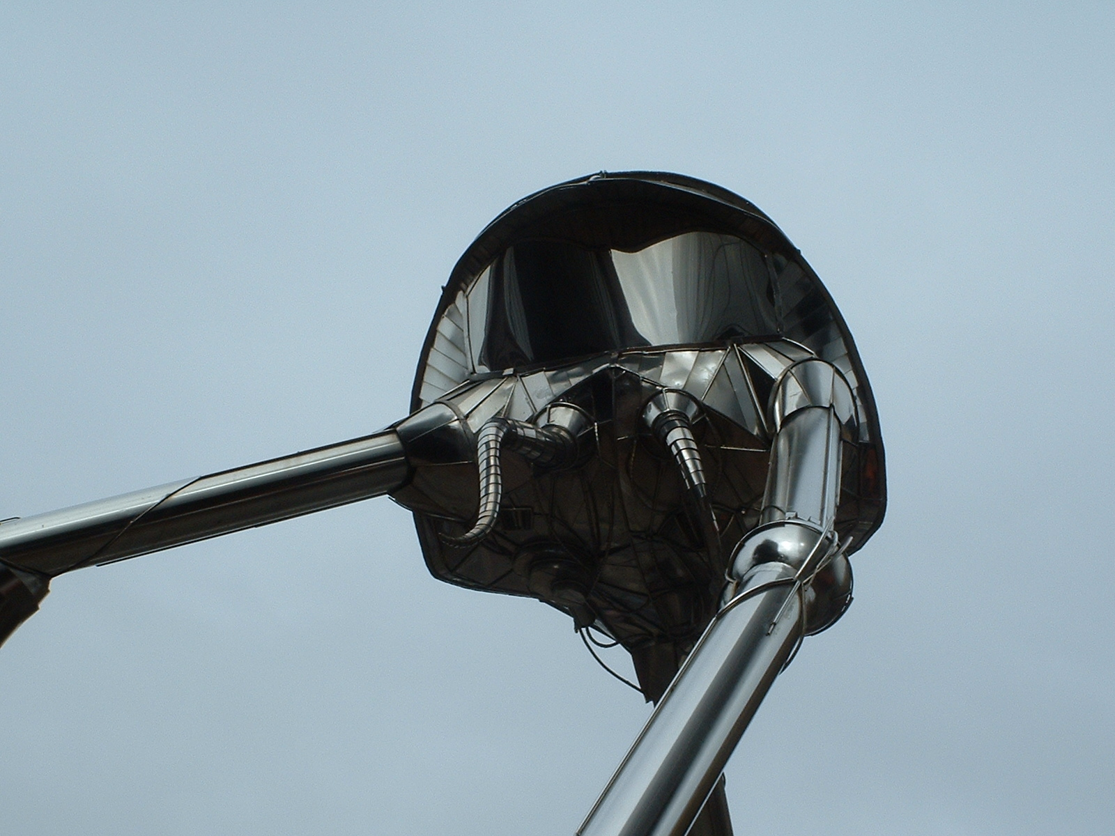 This is a statue of a Tripod inspired by the book The War of the Worlds and erected as a tribute to the book's author H. G. Wells in the town centre of Woking, England. Gaius Cornelius 17:51, 18 September 2005 (UTC)